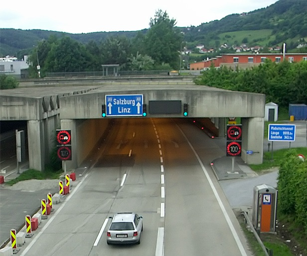 The Plabutschtunnel , a freeway tunnel in Austria, at the south portal